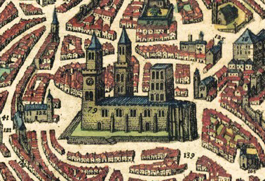 View of Lisbon Cathedral in the 16th century in a 1598 map